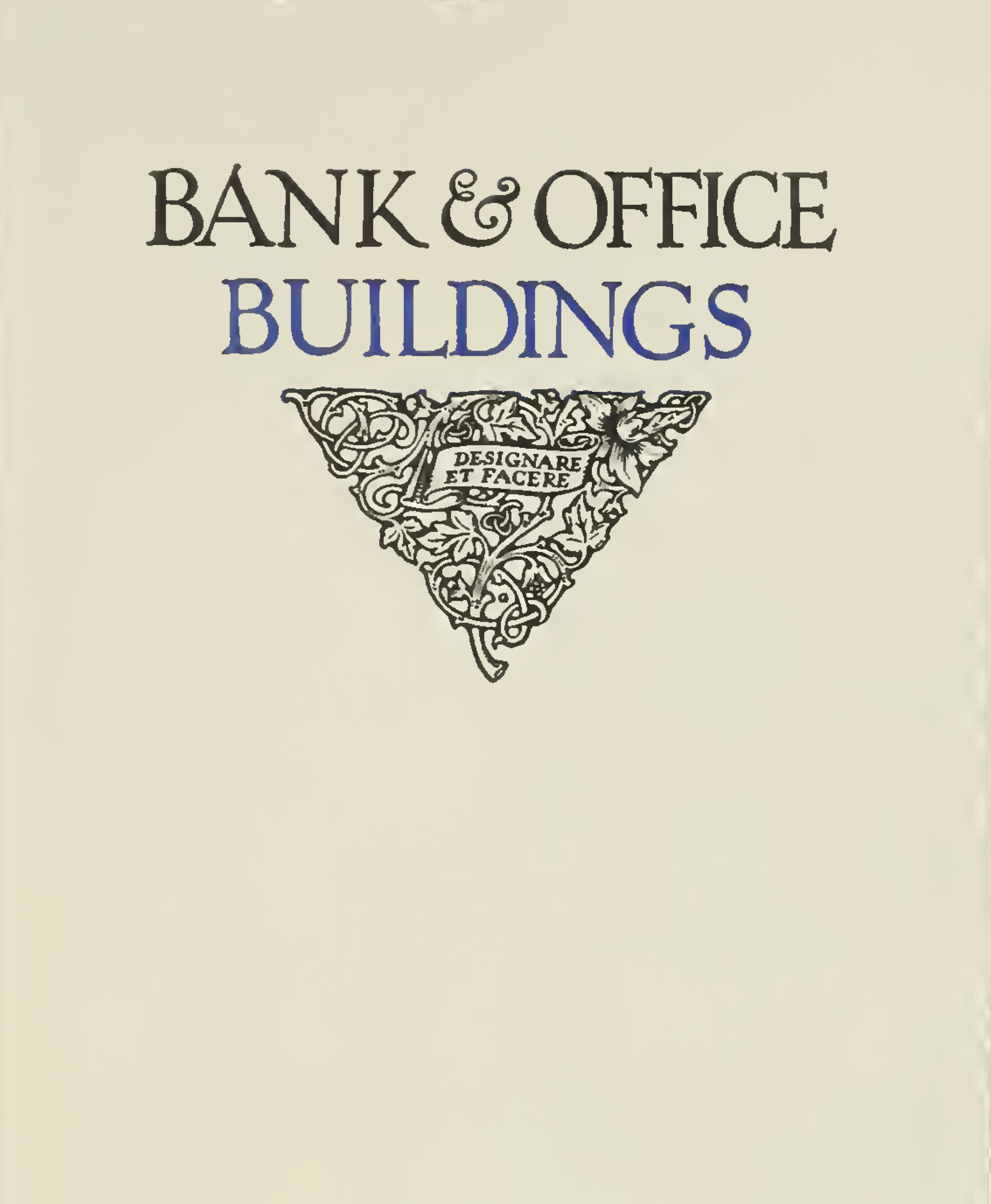 The cover of a brochure, created by Frederic Goudy some time before 1910. An example of Arts & Crafts printing for commercial use. The lettering is apparently hand-designed but similar to his Pabst Roman font.